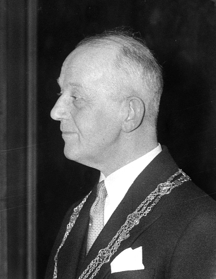 H.A.M.T. Kolfschoten at his reception after having been installed as new Mayor of the city of The Hague, the Netherlands.